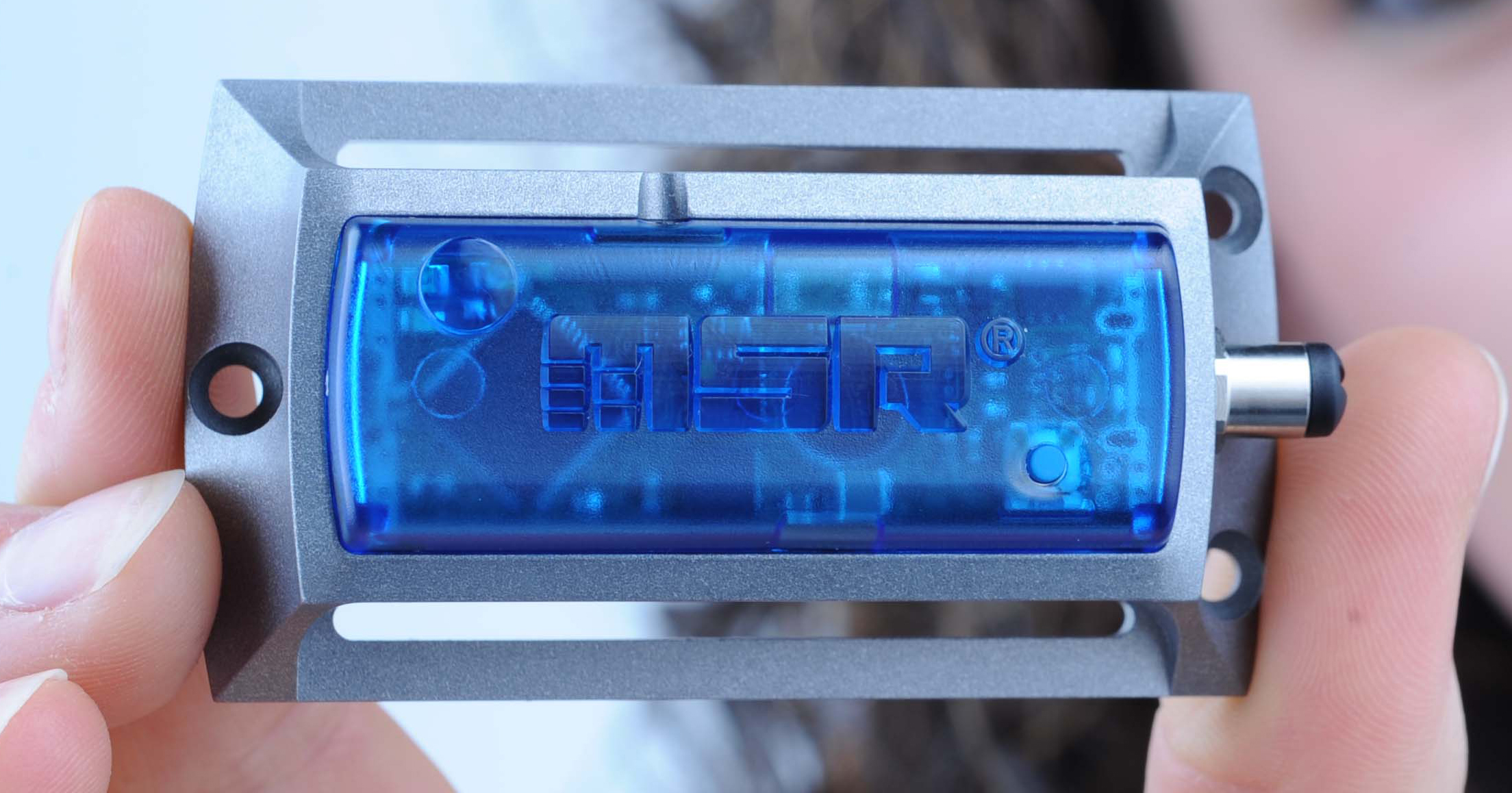 Mini Datalogger (MSR165) with internal sensors measuring temperature, pressure, humidity, light,3-axis acceleration. Memory capacity up to 1bn measurements parameters.